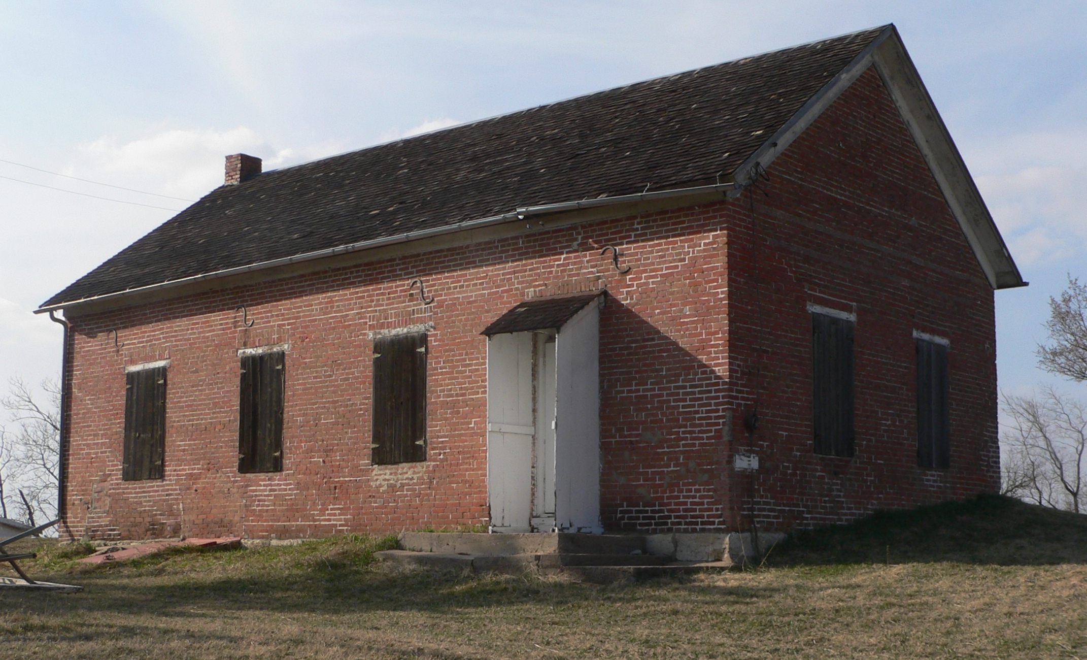 Rock Bluff School, formerly the Naomi Institute, located south of Plattsmouth in rural Cass County, Nebraska; seen from the southeast.